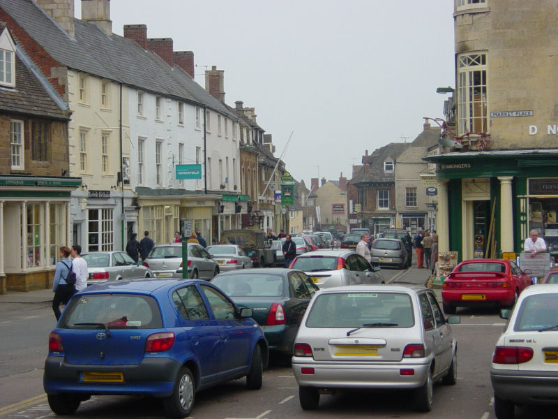 A view of Uppingham Town centre, Rutland, England